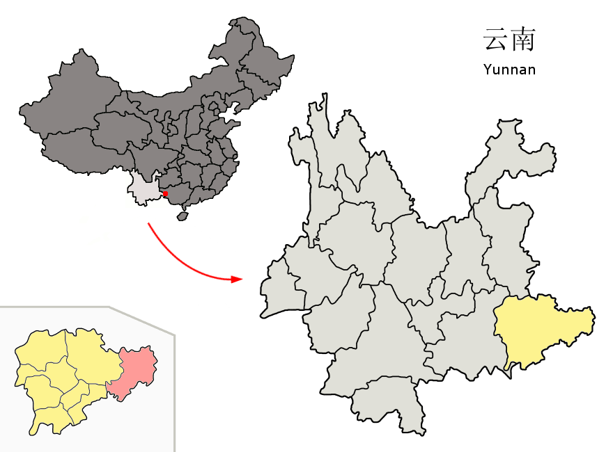 Location of Funing County (pink) and Wenshan Prefecture (yellow) within Yunnan province of China Map drawn in october 2007 using various sources, mainly : Yunnan province administrative regions GIS data: 1:1M, County level, 1990 Yunnan Counties map from